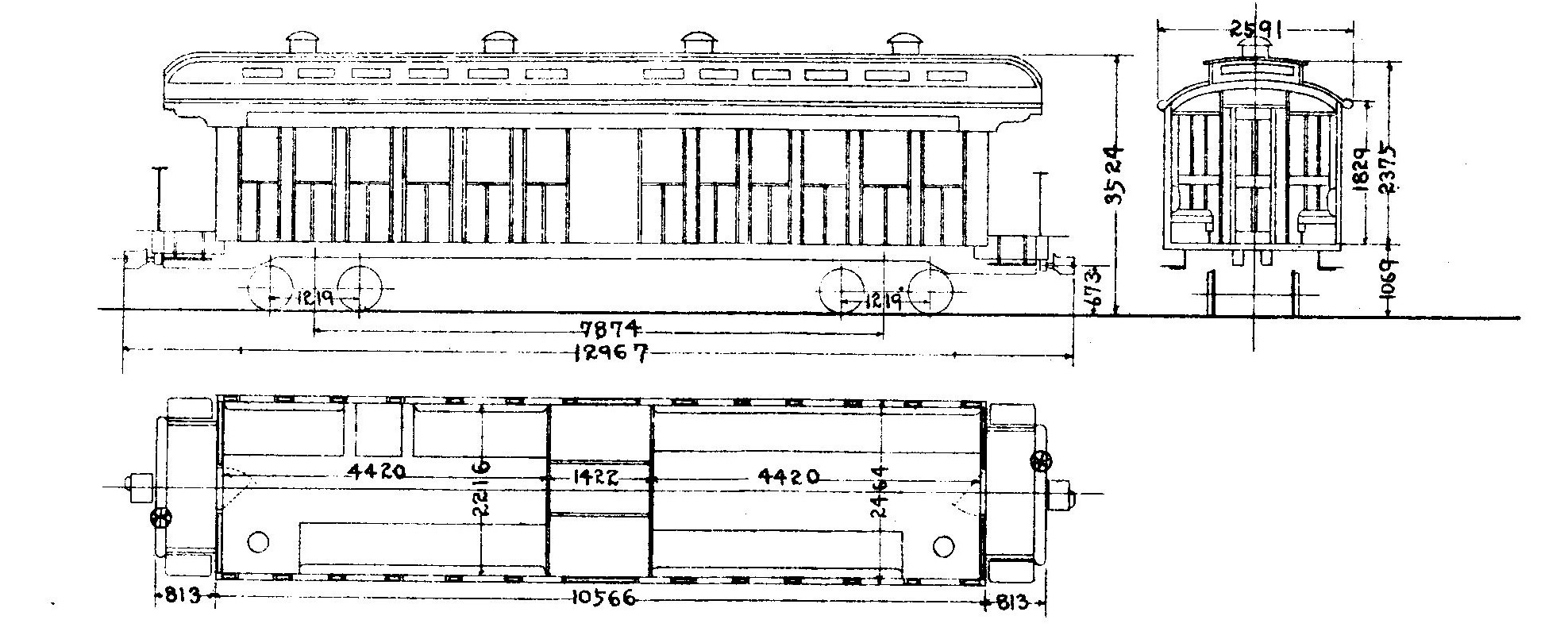 Type drawing of JGR's passenger car Fukoro5675 (ex. Hokkaido Tanko Railway Ni-5)